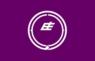 Flag of Tohnosho Chiba